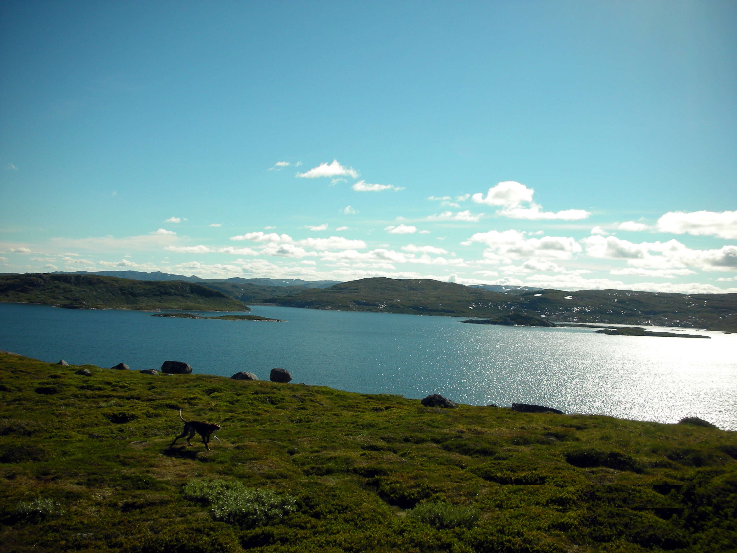 The lake Rosskreppfjorden in the southern Norway seen from the island Botnshaug. Looking to west.